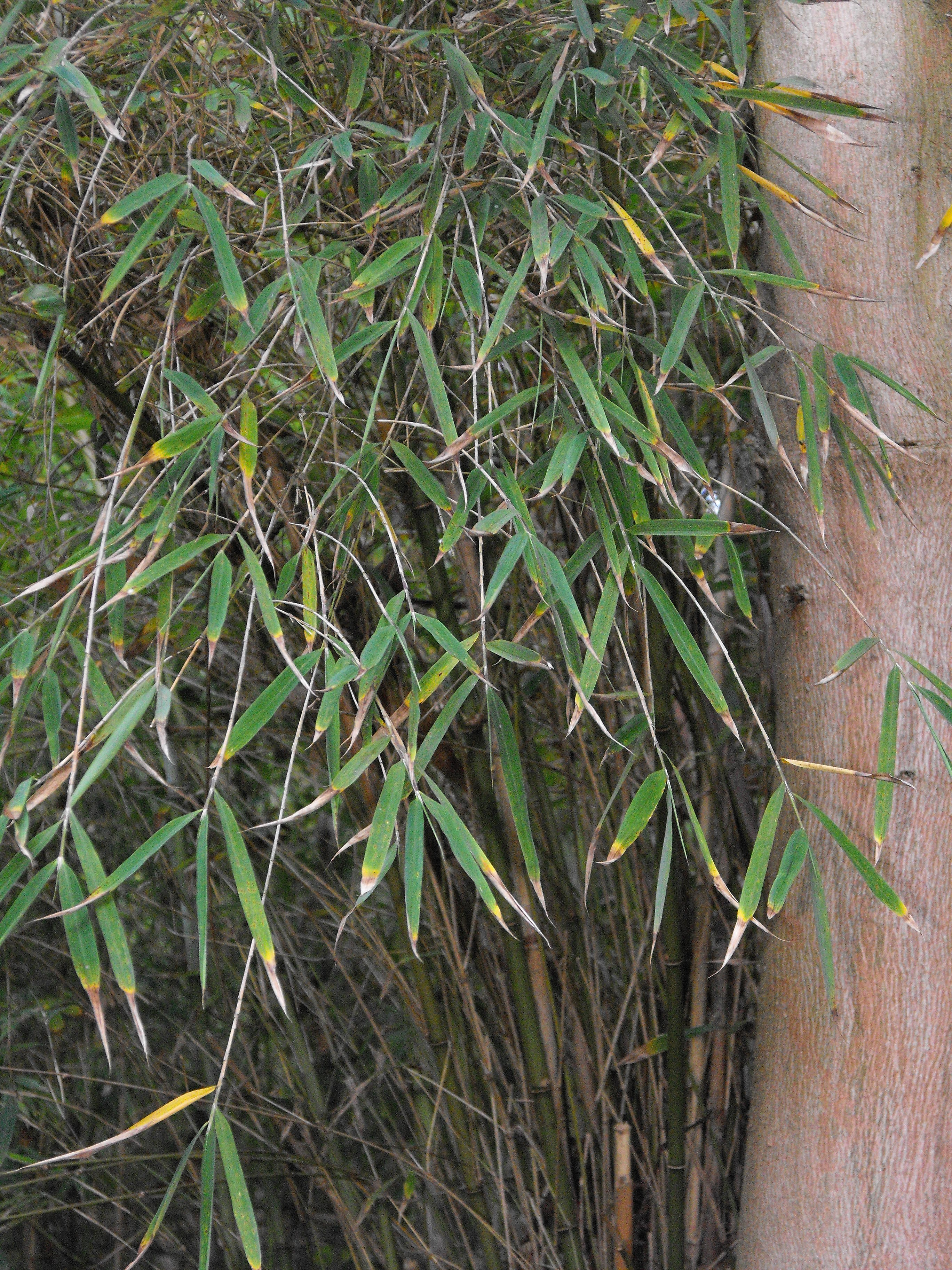 Cephalostachyum pergracile at the San Diego Zoo, California, USA. Identified by sign.